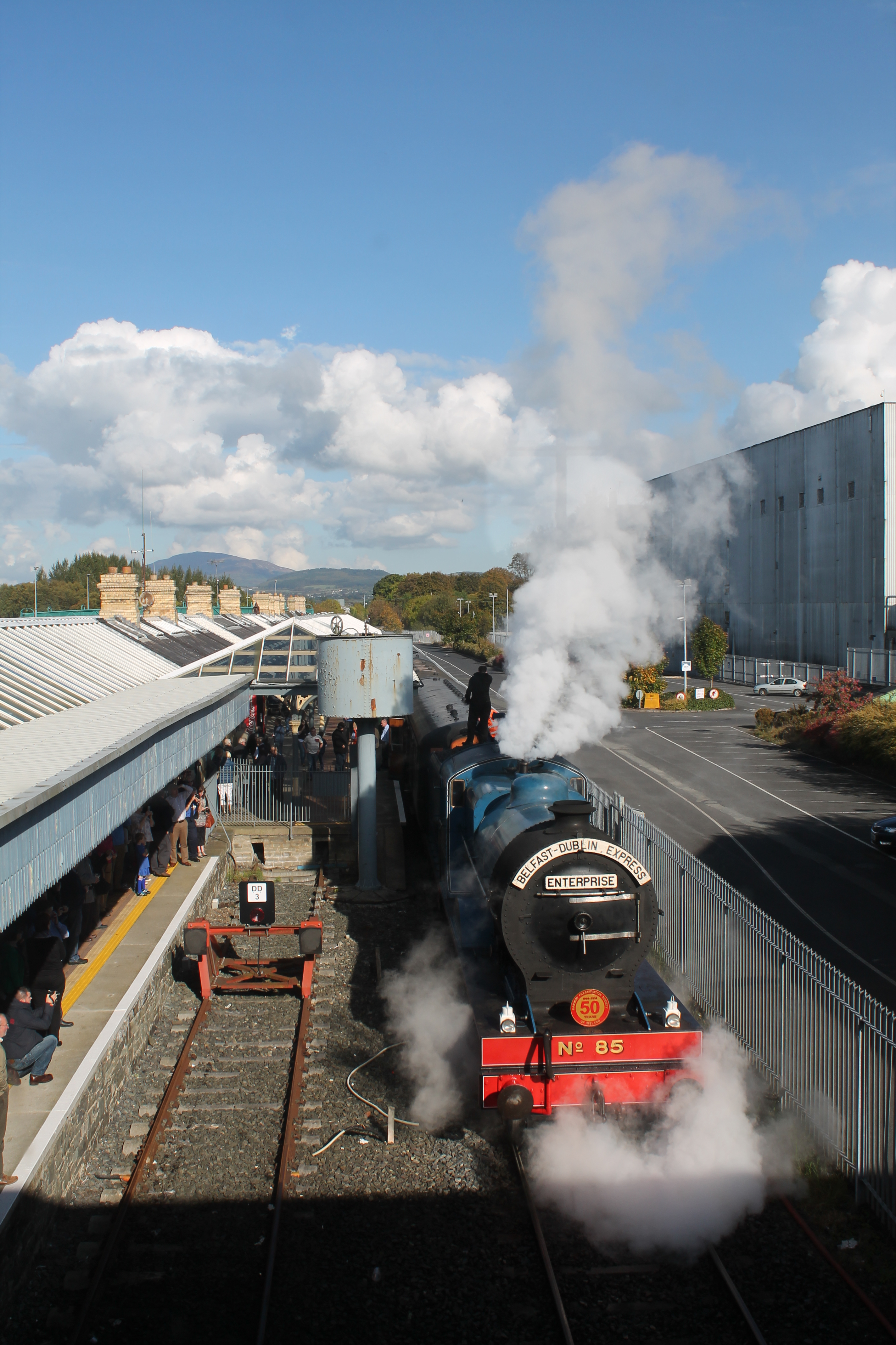 No. 85 'Merlin' at Dunalk with a Steam Enterprise